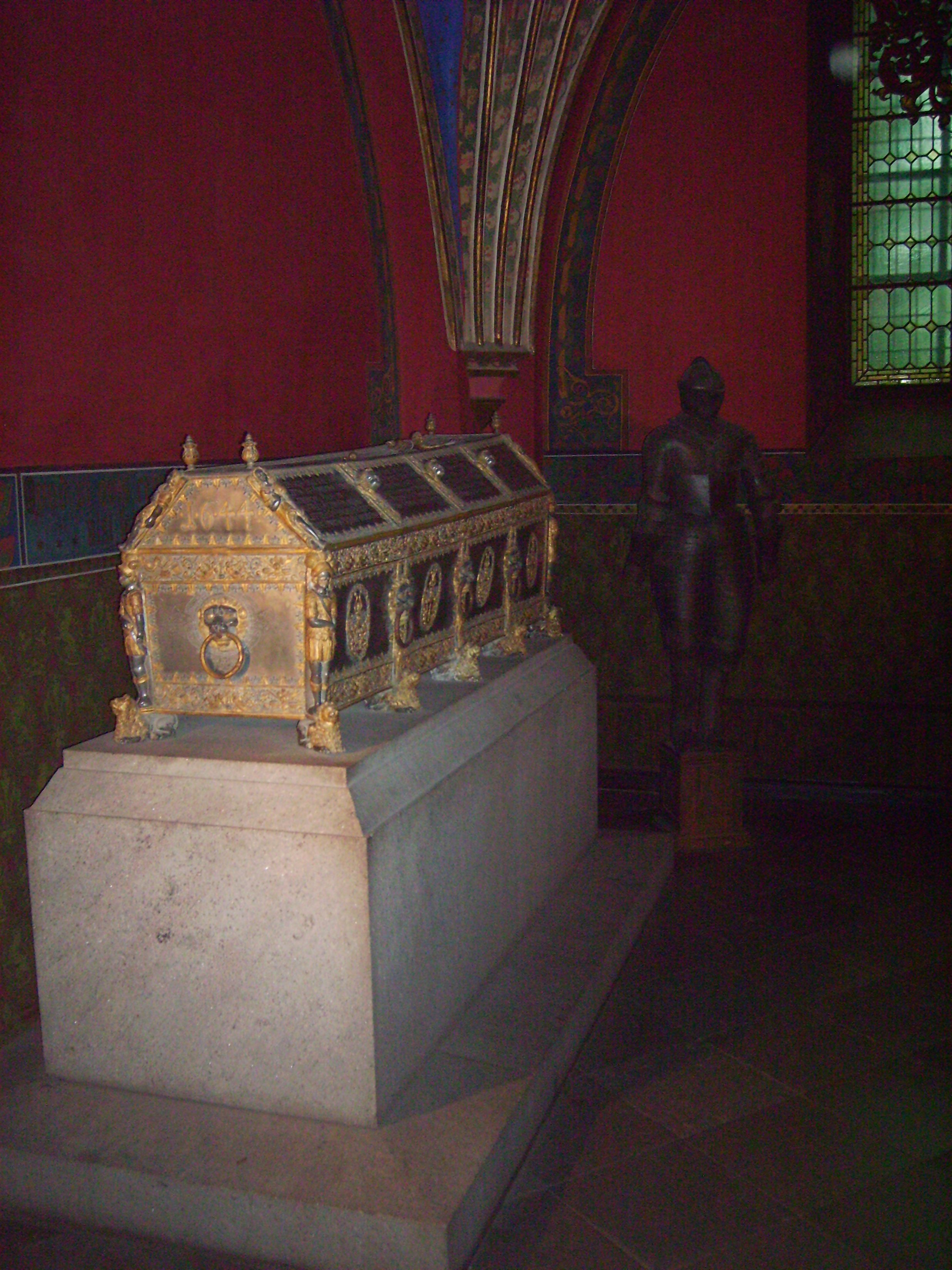 Cathedral of Åbo, Finland.